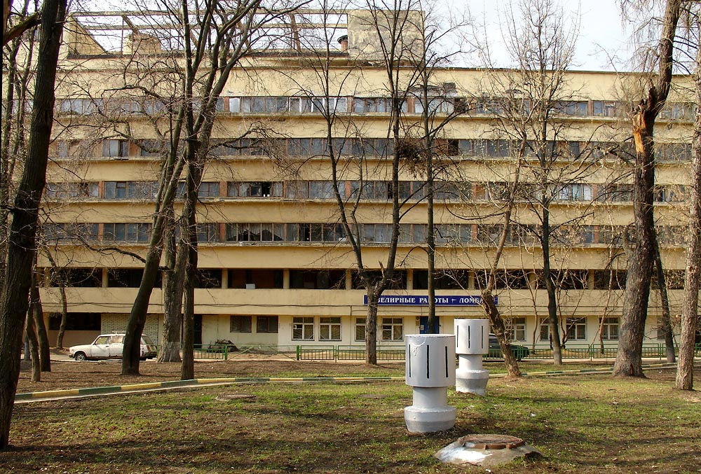 Narkomfin Buildings in Moscow, March 2007. Some residents still living there. View from east: while the building is falling apart, the small park between it, the US Embassy and Fyodor Shalyapin museum is very well groomed.